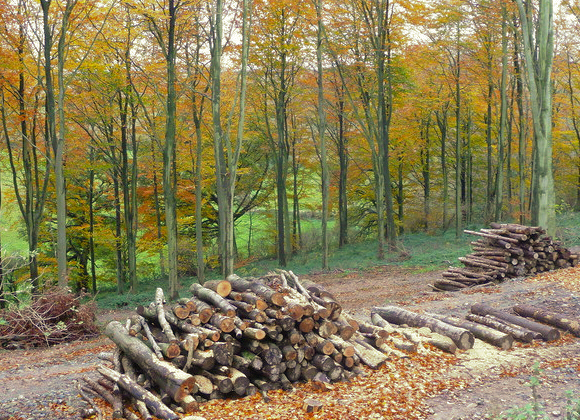 Logging in beech wood. Looking south from the A449 near Ross-on-Wye, Herefordshire, England.